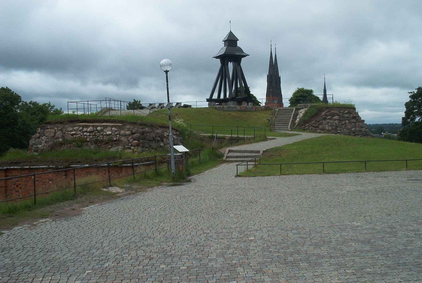 The Gunilla Bell, named after King John III's consort, stands outside the Uppsala Castle.